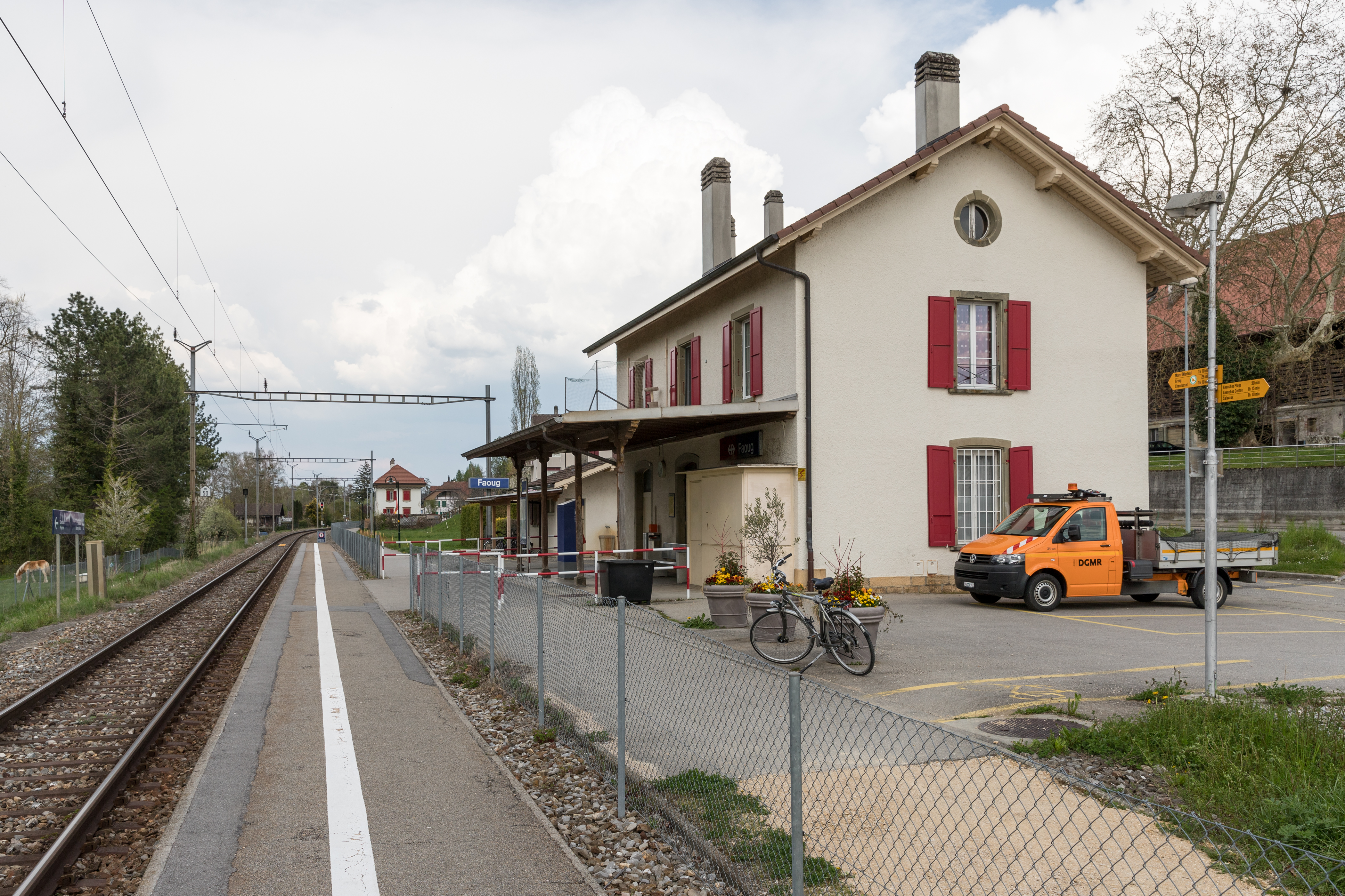 Faoug railway station at the Broye railroad